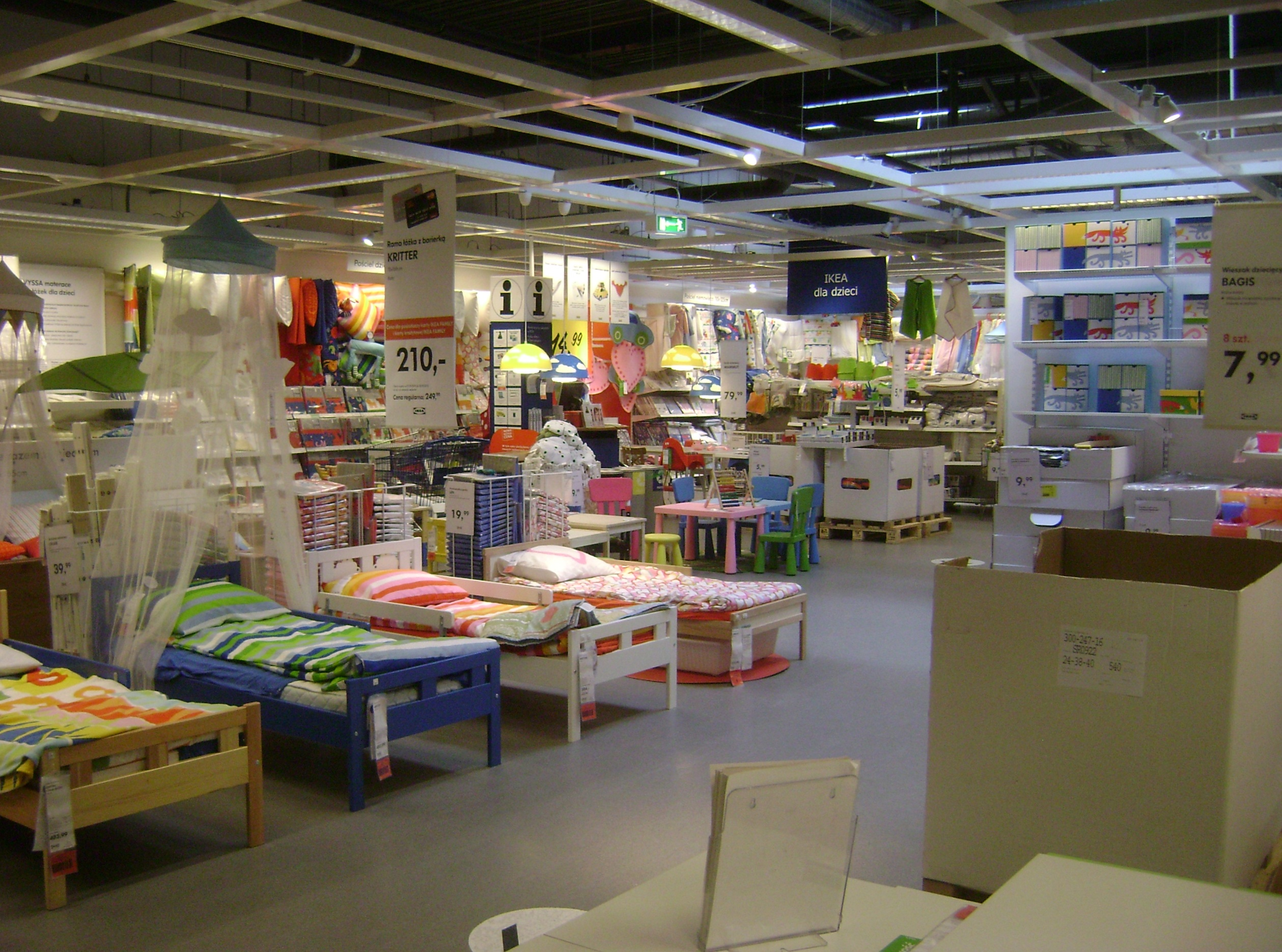 Poland. Gmina Raszyn. Janki, IKEA